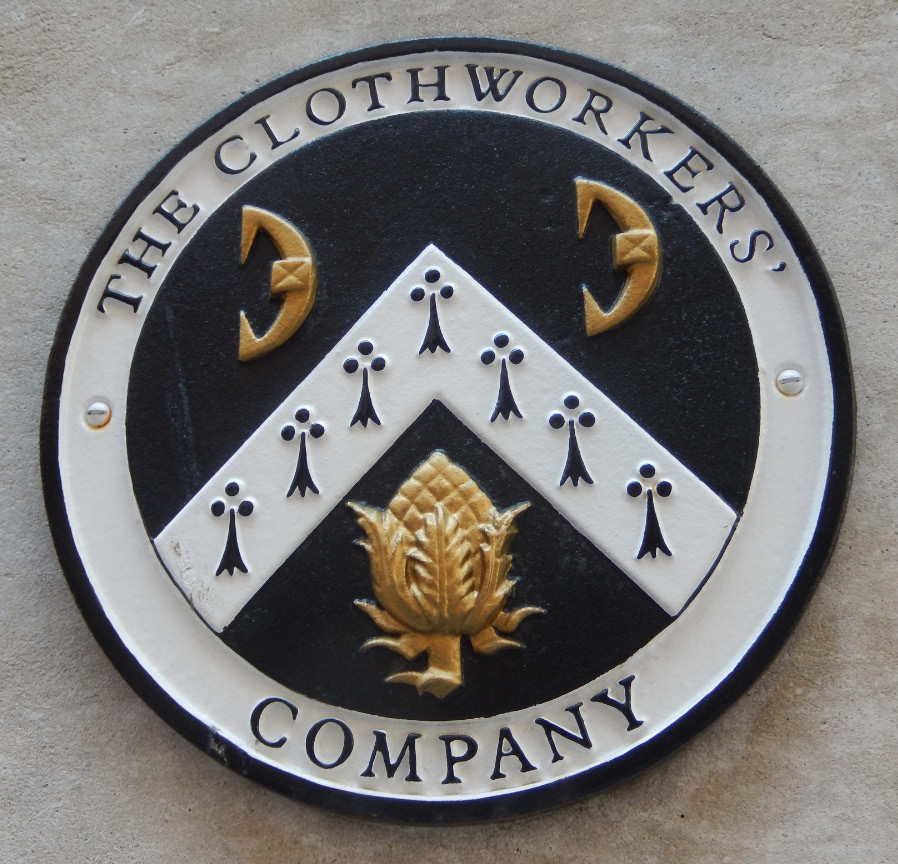 The Clothworkers' Company. Plaque near Clothworkers' Hall, City of London. Arms of the Worshipful Company of Clothworkers: Sable, a chevron ermine between in chief two havettes argent and in base a teasel cob or. Shearboard hooks (harbicks or havettes) were double hooks used to attach lengths of cloth to the shearing table or bench for shearing or levelling the nap or pile (Allan, J.P., Medieval and Post-Medieval Finds from Exeter, Exeter Archaeological Reports, 1984, p.345) which had been created by combing with teasels. For images of archaeological finds of shearboard hooks/harbicks/havettes, see [1]. Further information on these tools see [2]